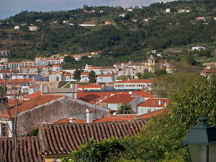 View of Calvario Church and Monastery of São Bernardo